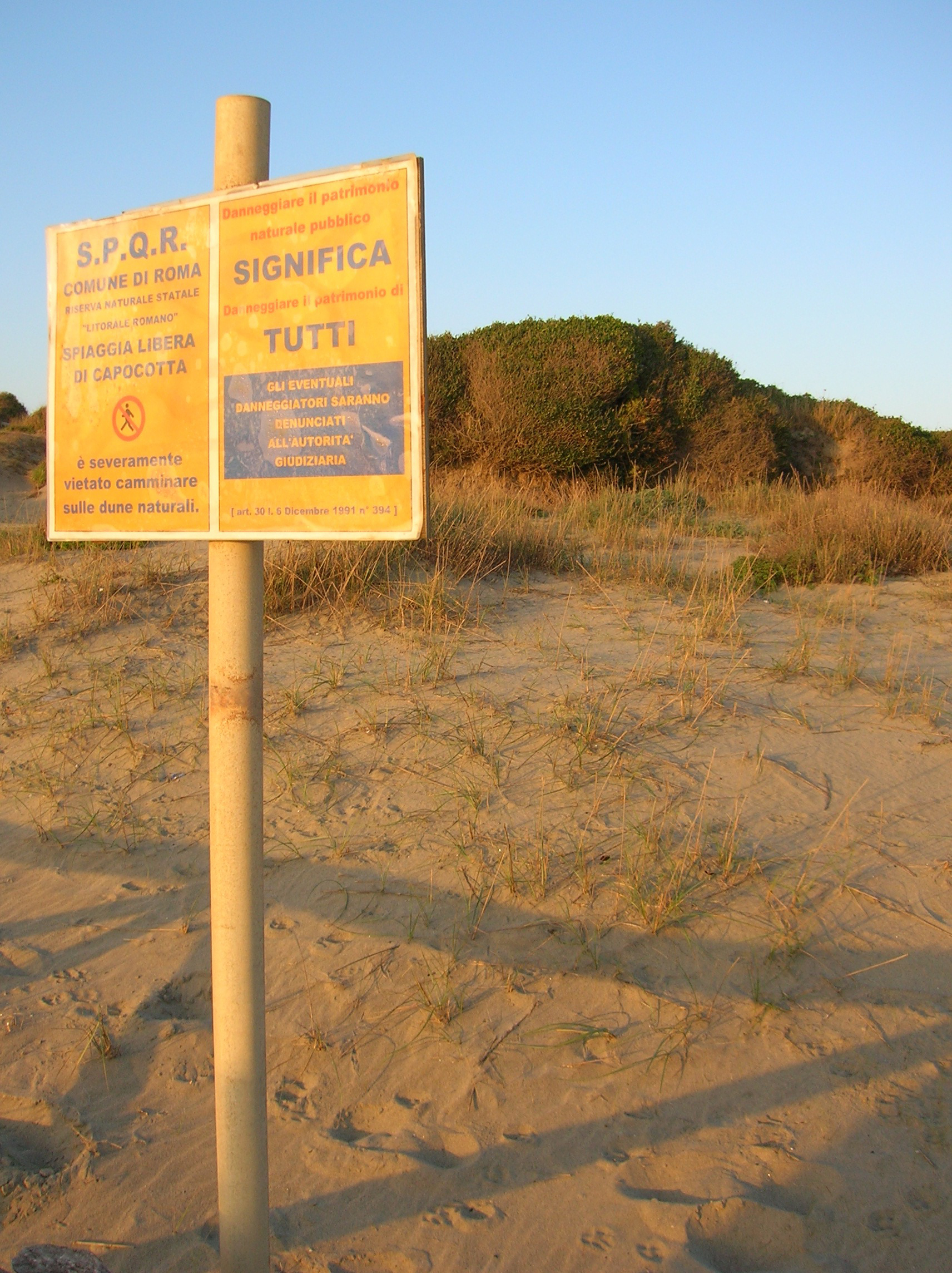 Panel on the beach of Capocotta, in Nature Reserve "Litorale Romano", Rome, which invites to not walk on the dunes: it causes damage to the ecosystem of the protected protected